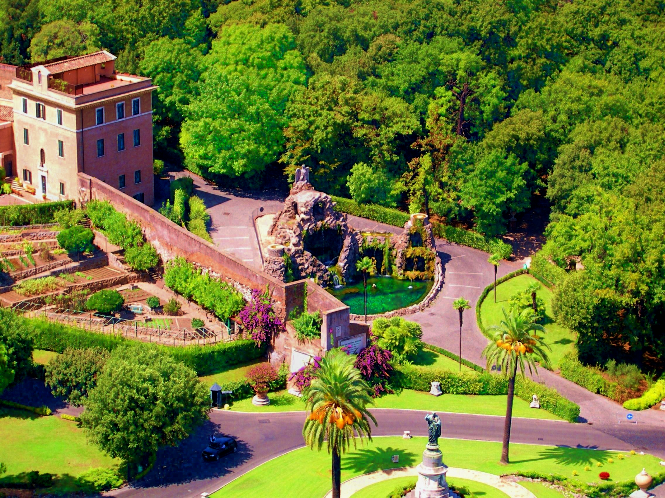 View of the Vatican Gardens